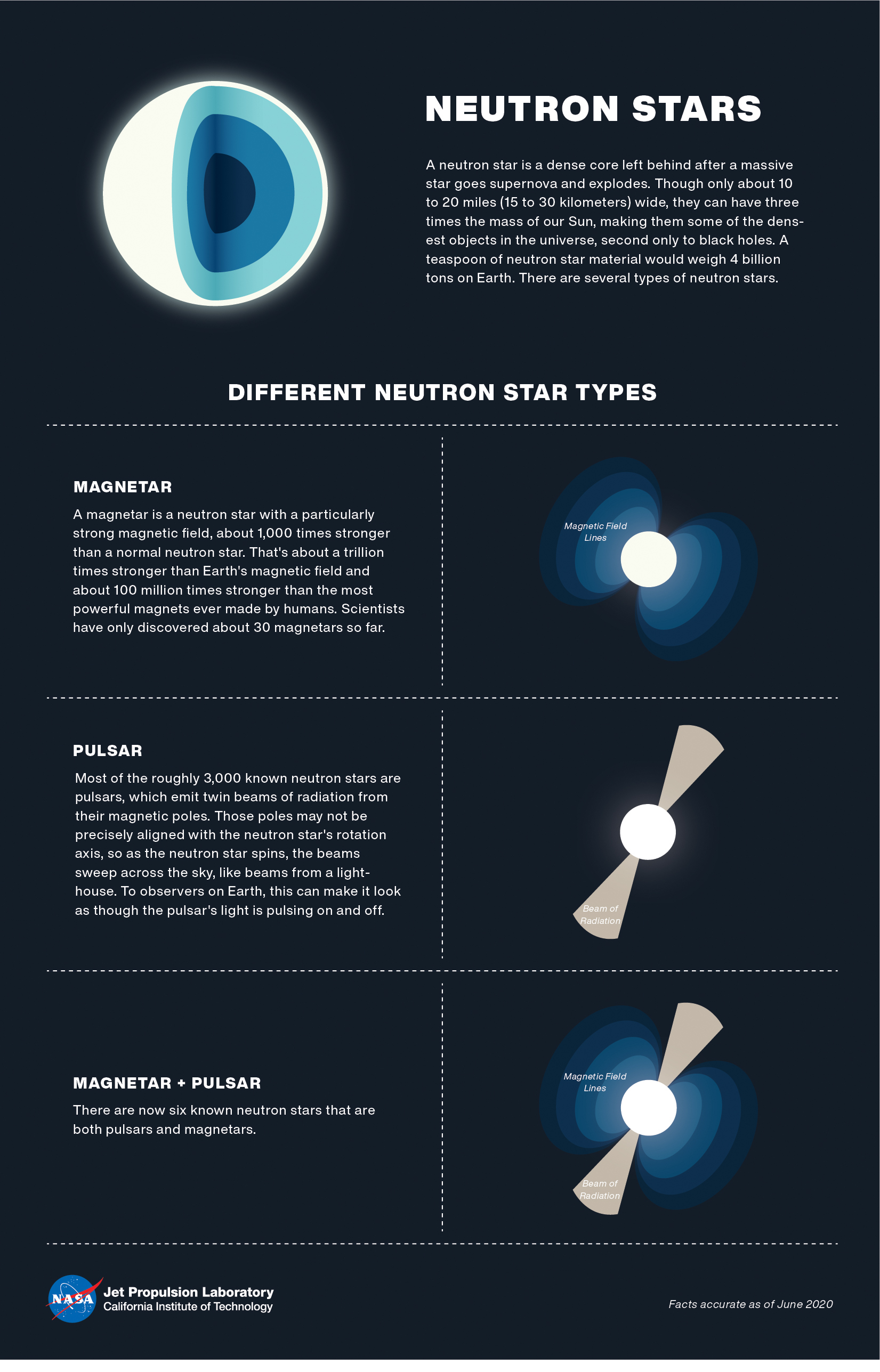 PIA23863: Different Types of Neutron Stars (Illustration) Neutron stars, or cores leftover from exploded stars, are some of the densest objects in the universe. There are several types of neutron stars, including magnetars and pulsars. NuSTAR is a Small Explorer mission led by Caltech in Pasadena and managed by NASA's Jet Propulsion Laboratory, also in Pasadena, for NASA's Science Mission Directorate in Washington. For more information, visit and